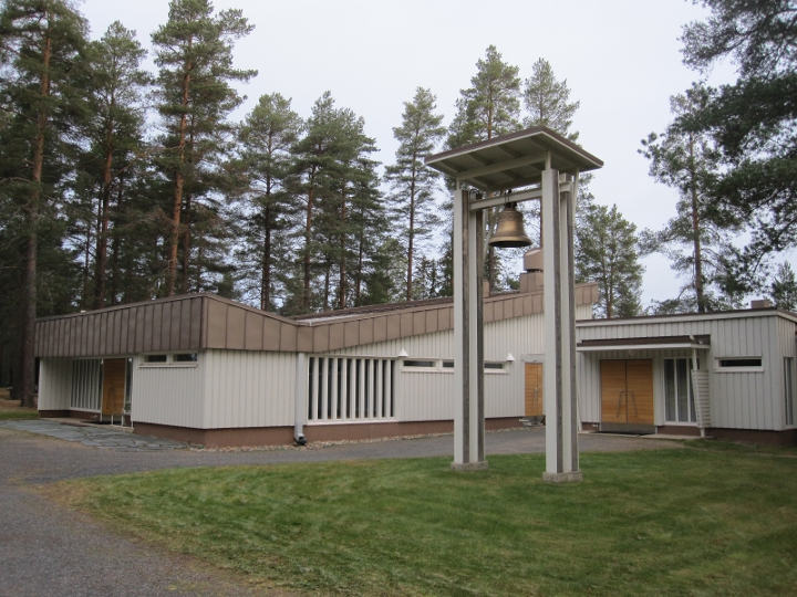 Rantakylä cemetery chapel in Liminka, Finland.